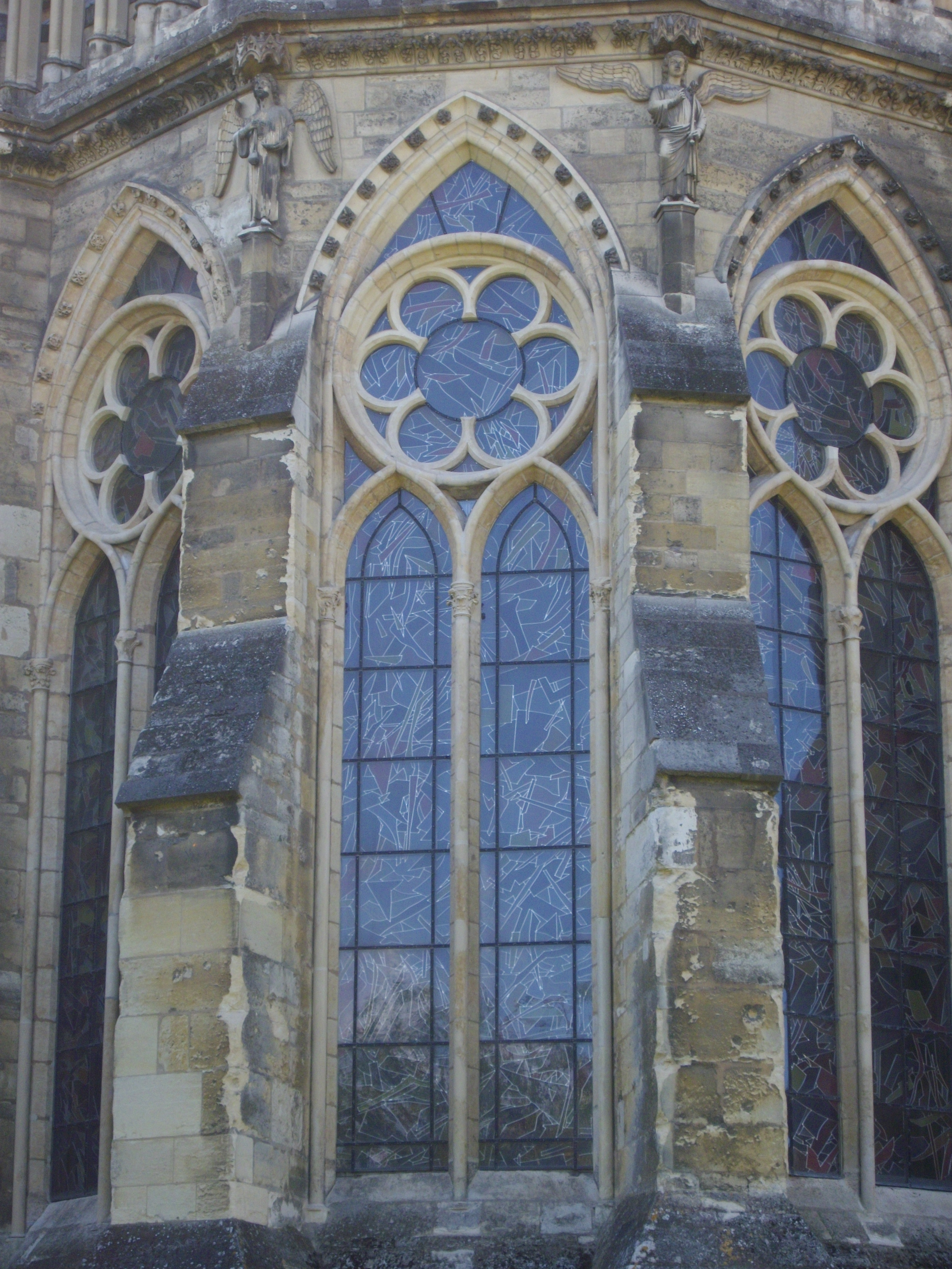 Our Lady cathedral of Reims (Marne, France), apse .